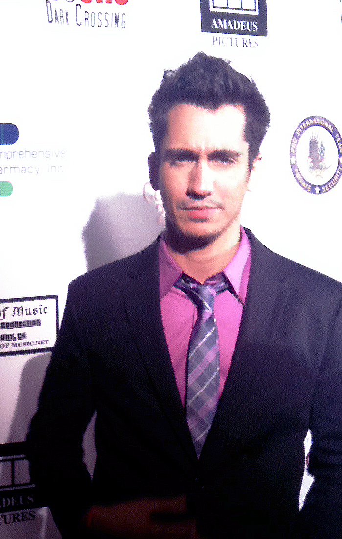 John Bryant Davila